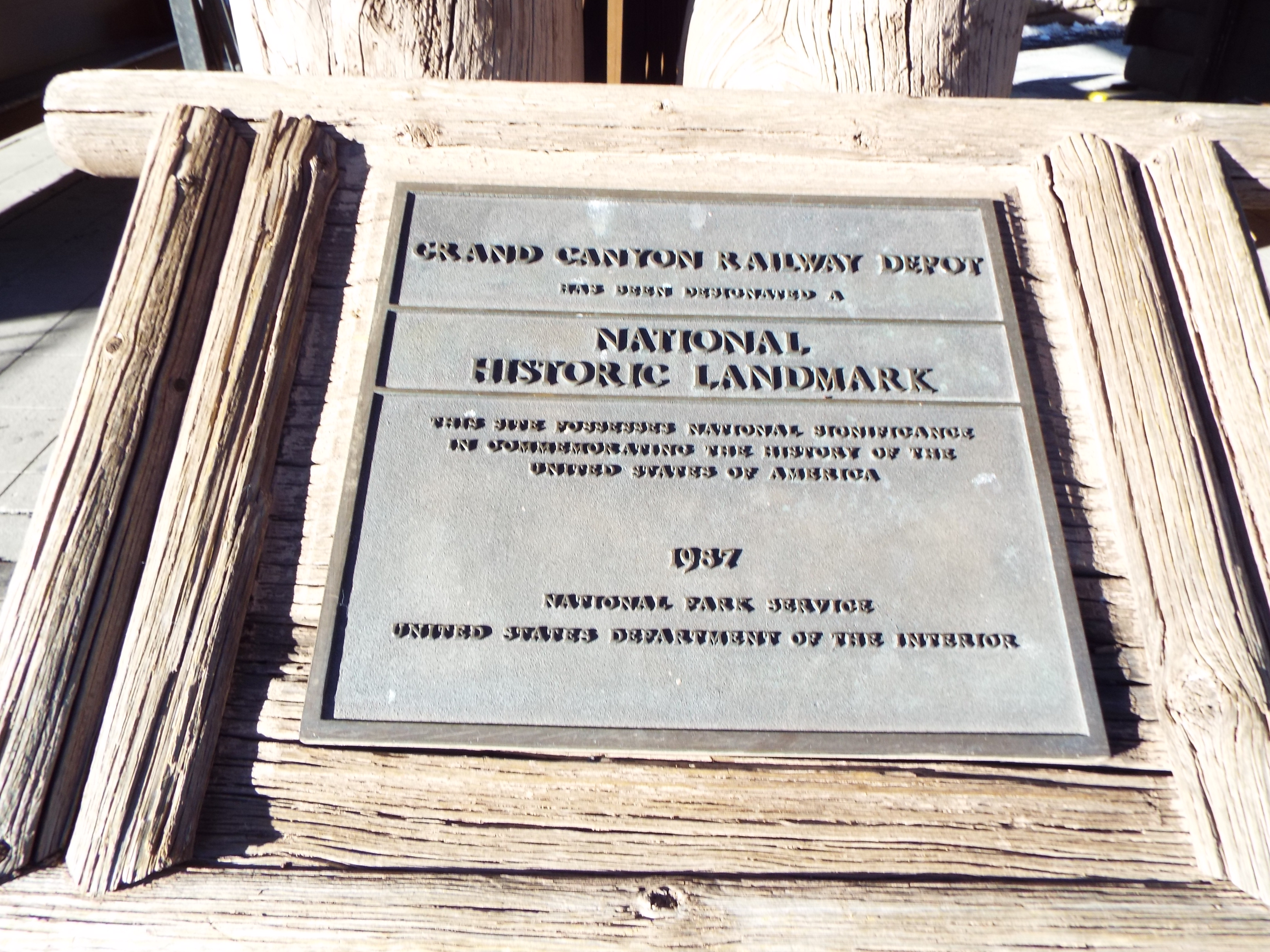 The Grand Canyon Railroad Station National Historic Landmark Marker..